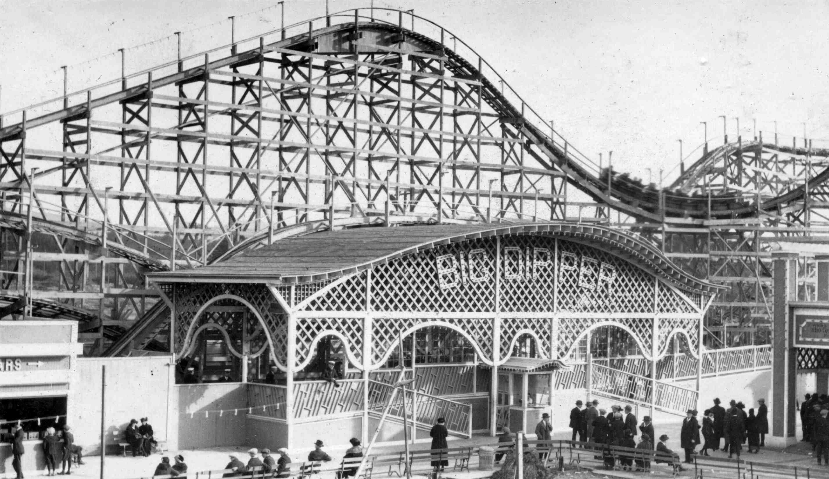 ca 1920's photo of San Francisco's Big Dipper Roller Coaster — at Playland at the Beach, western coast of San Francisco. The Early Years; Smith, James R.; 2010. page 63.